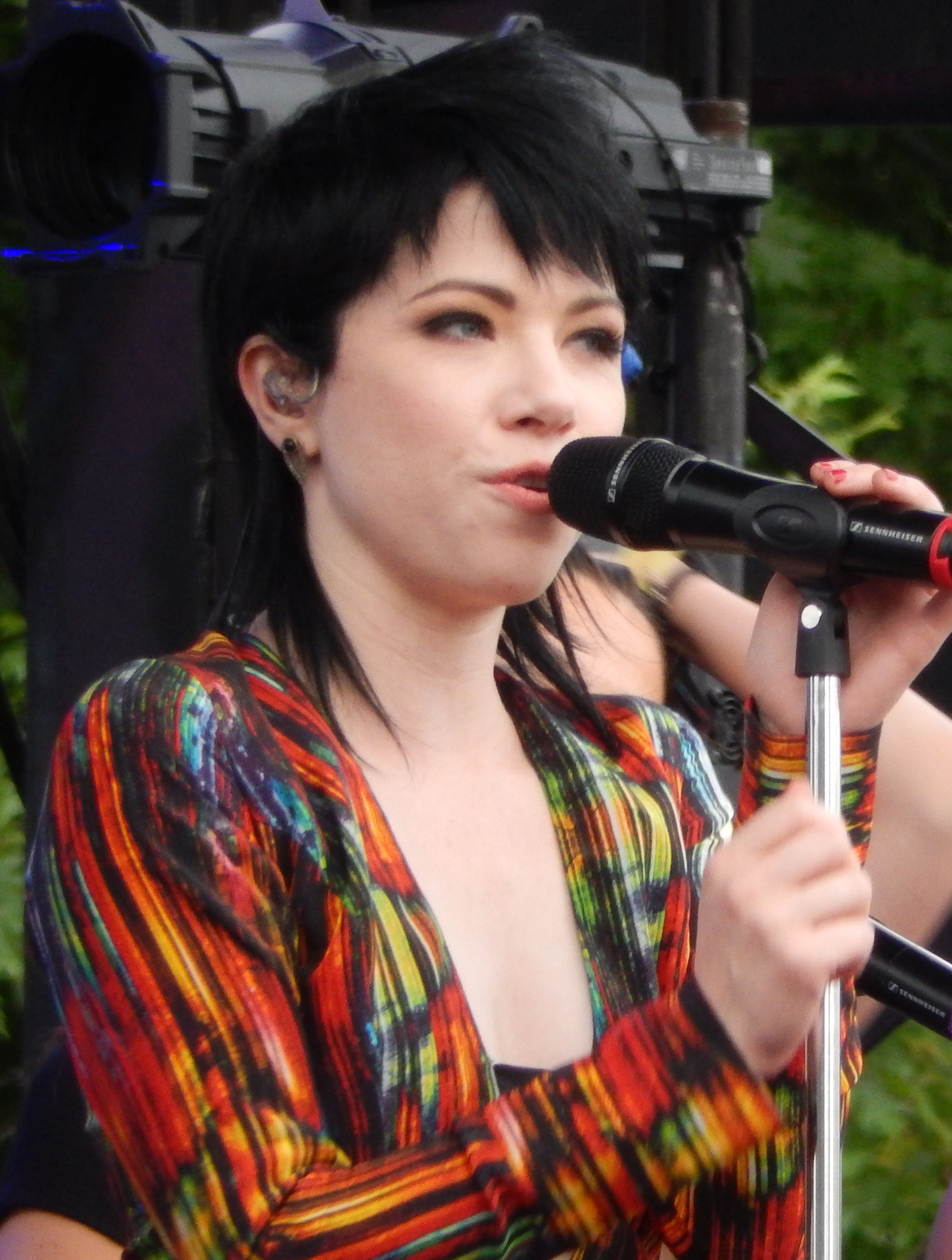 Carly Rae Jepsen @ Pitchfork, Chicago 7/15/2016